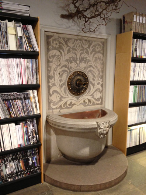 The indoor drinking fountain for the German school children in the Deutsche Schule in Norwegen (=German school in Norway) built in Josefines gate 32, Oslo, Norway, during World war 2. Now the library of the National Association of Norwegian Architects